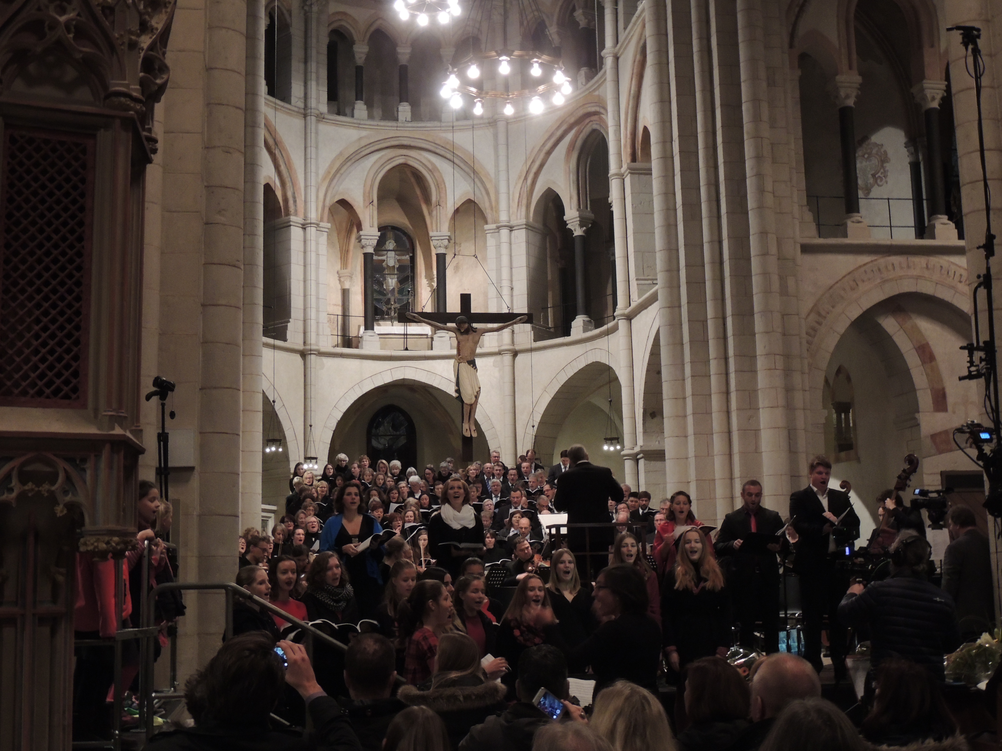 Six choirs and soloists in Limburg Cathedral during the premiere of the oratory Laudato si' by Peter Reulein (music) und Helmut Schlegel (lyrics) in Limburg an der Lahn at November 6th 2016